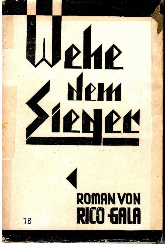 First Edition of "Wehe dem Sieger", by Werner Ackermann.